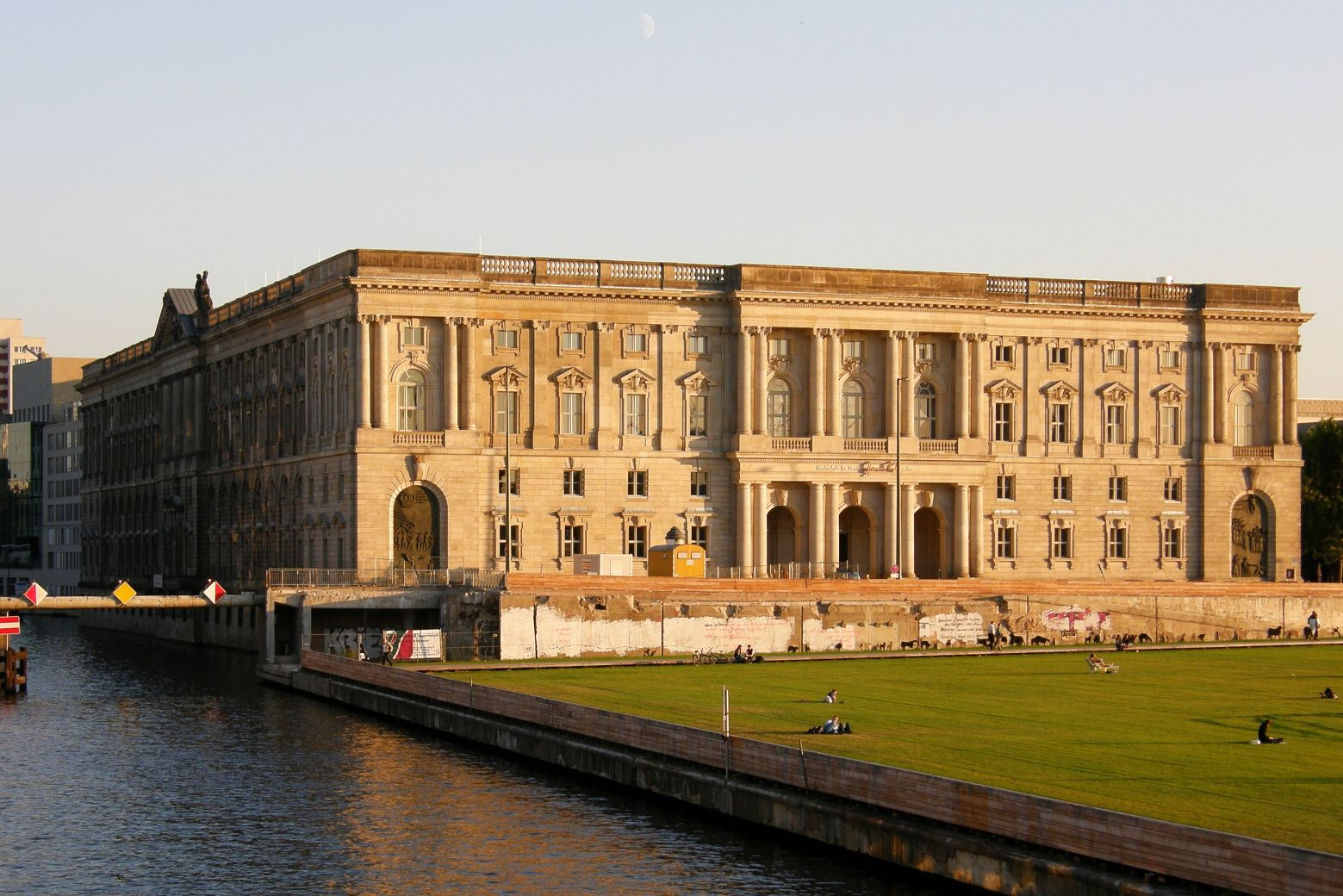 “Neuer Marstall” (stable), Berlin, view from north.